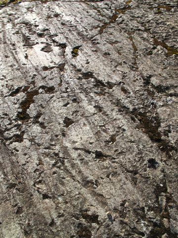 Costa Rica Chirripo glacier.